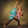 ballet, jesus, contemporary